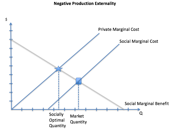 Negative Production Externality